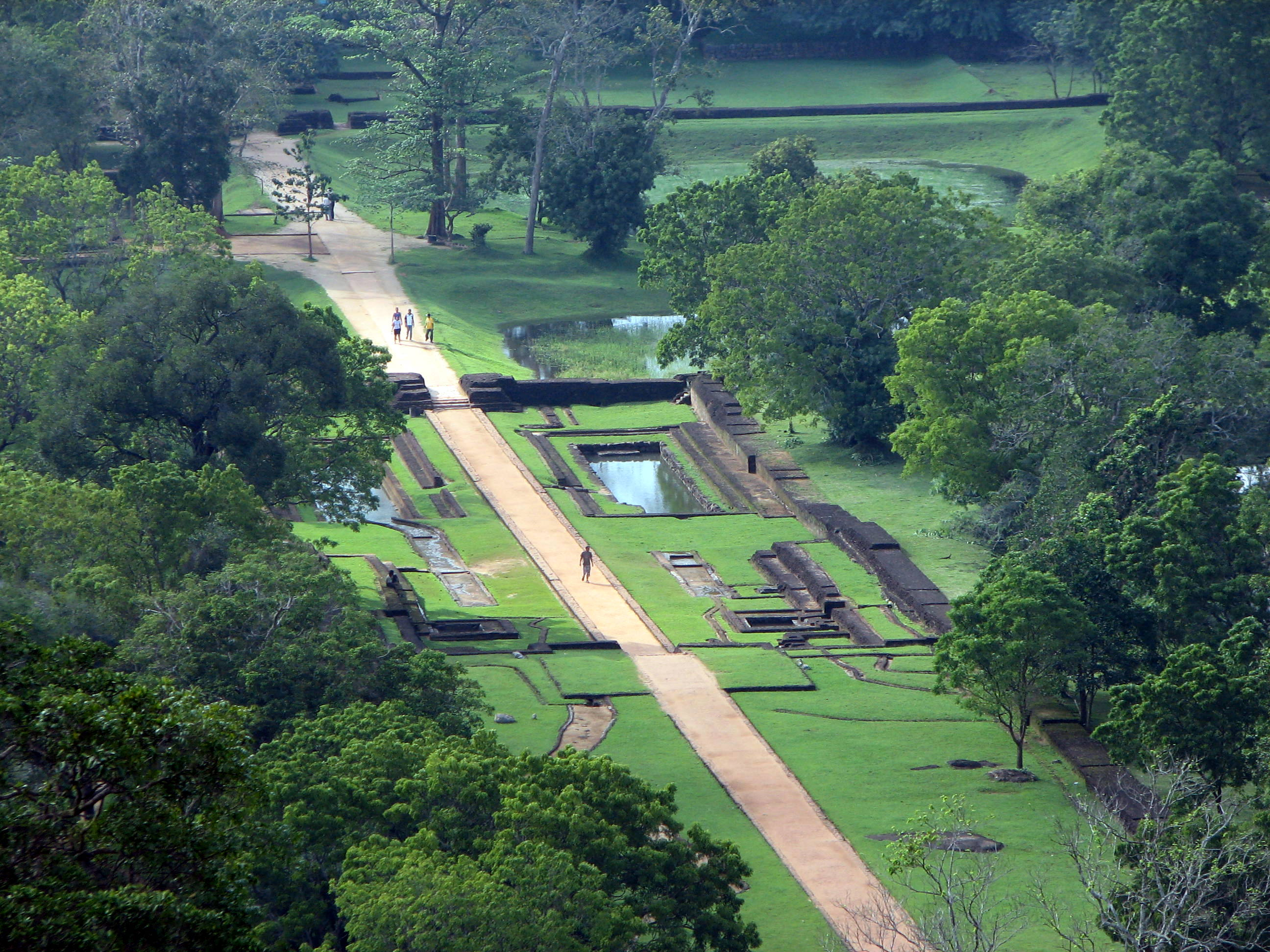 Sigiriya terraced gardens viewed from the summit of the rock, Sri Lanka